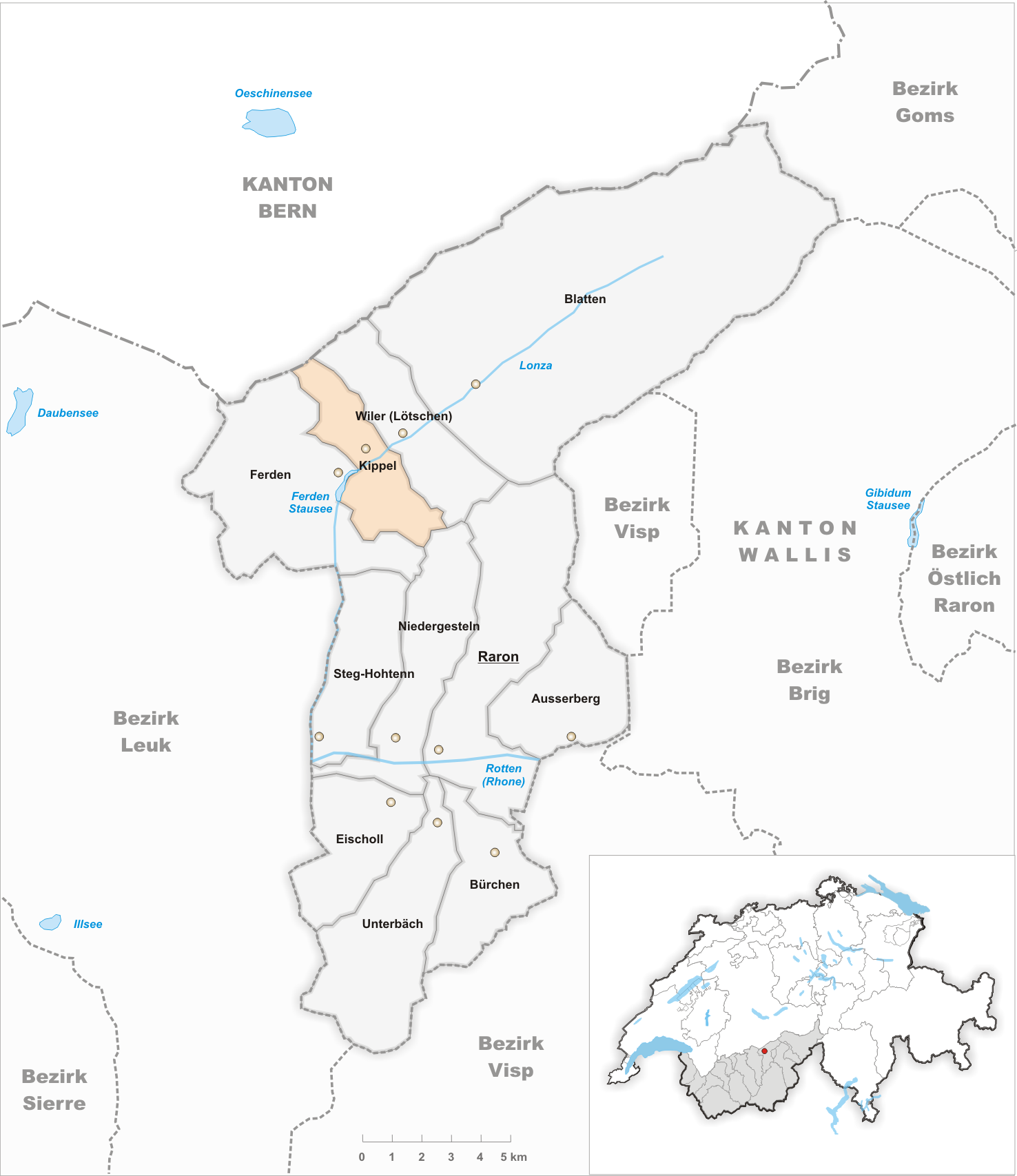 Municipality Kippel